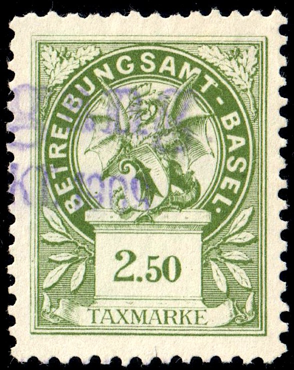 Switzerland Basel 1905 Betreibungsamt revenue 2.50Fr - 16, perforated 11.5.